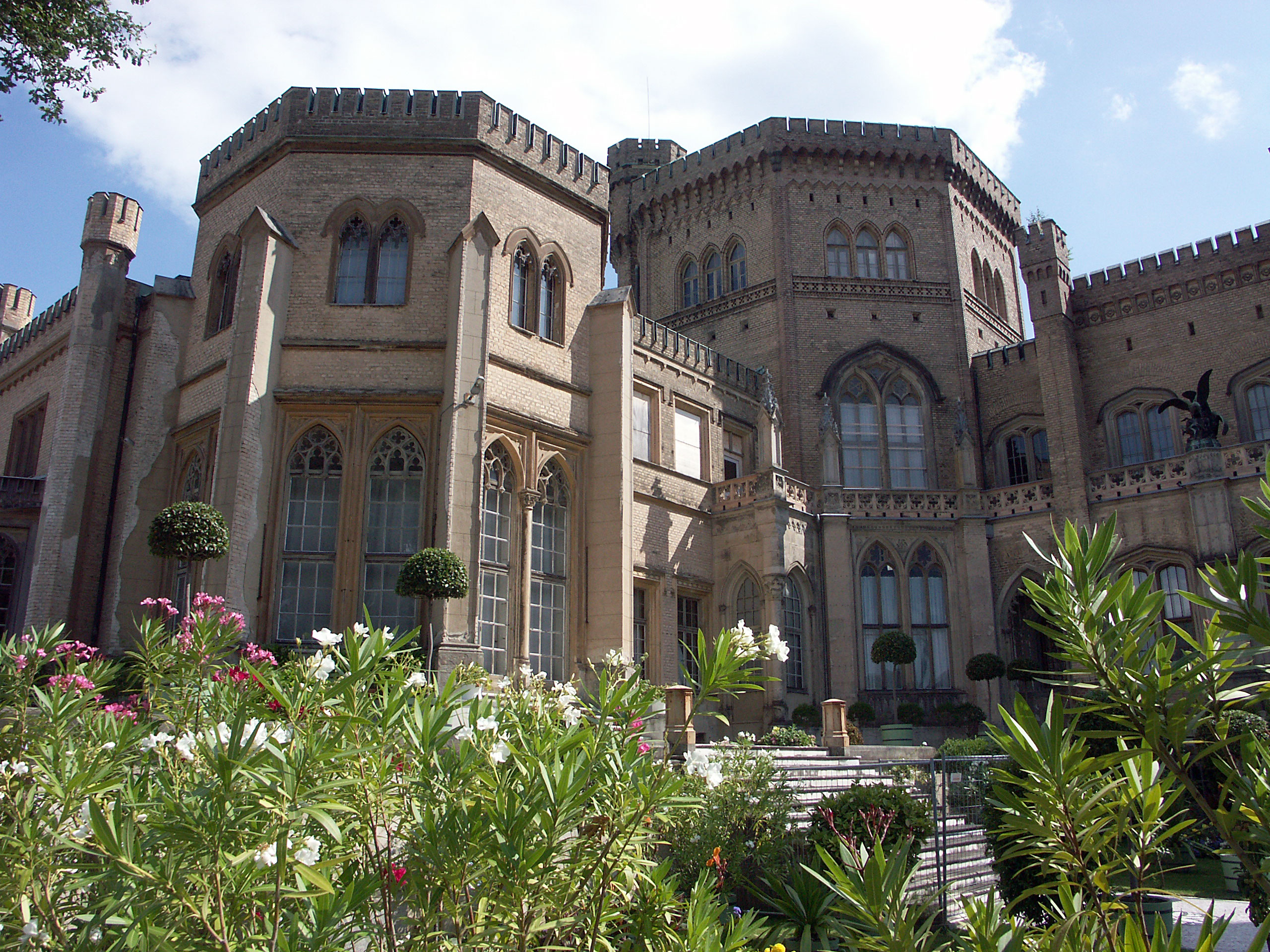 Sight of Schloss Babelsberg, near Potsdam